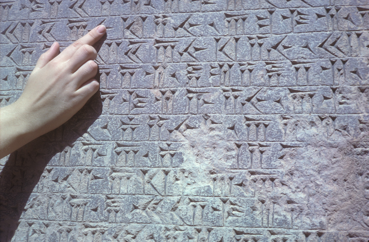 A close-up of the cuneiform inscription. I believe that the damage visible at lower right was caused by bullets fired by British soldiers stationed near here during the Second World War.